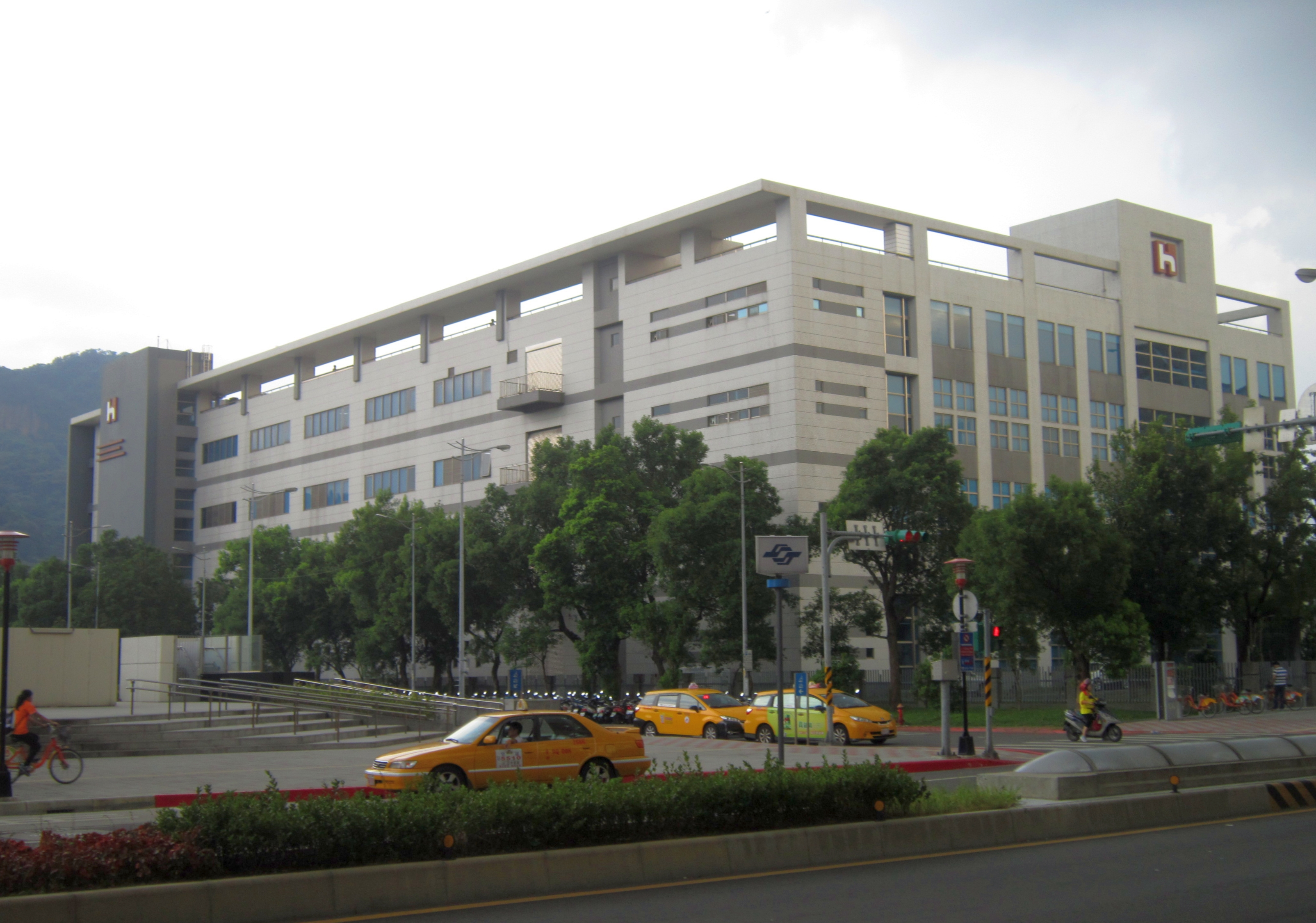 Dingpu Plant, Hon Hai Precision Ind. Co., Ltd.